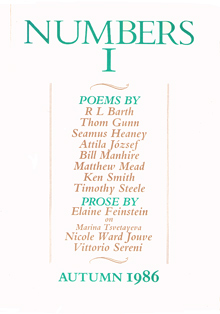 Numbers magazine, cover of issue 1, Autumn 1986, listing the contributors, including: RL Barth, Thom Gunn, Seamus Heaney, Attila József, Bill Manhire, Matthew Mead, Timothy Steele, Ken Smith, Elaine Feinstein, Vittorio Sereni